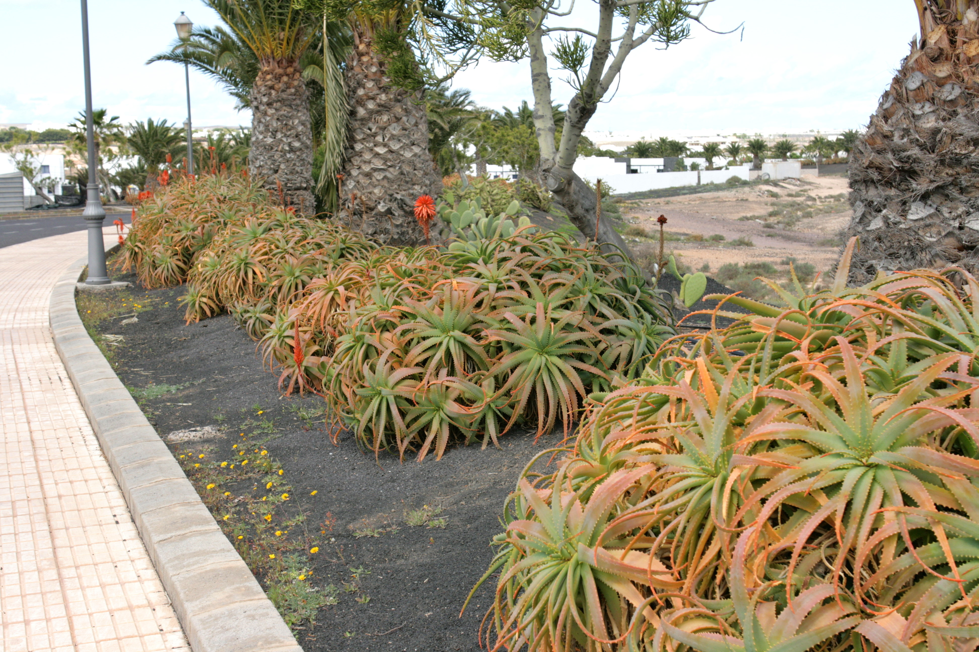 Aloe arborescens grown at Calle La Calera in Playa Blanca, Yaiza, Lanzarote, Canary Islands